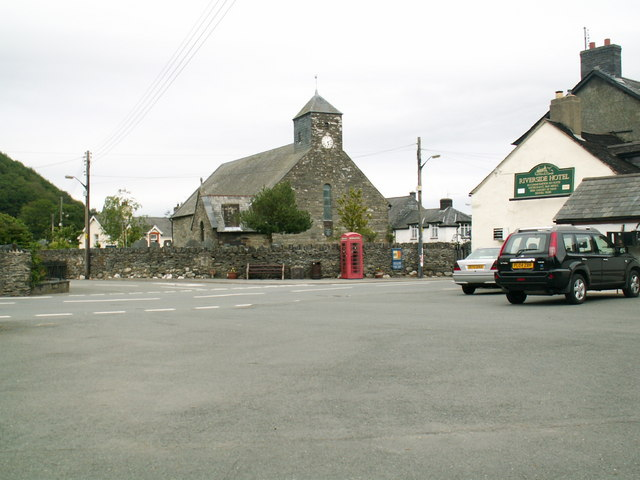 Pennal.